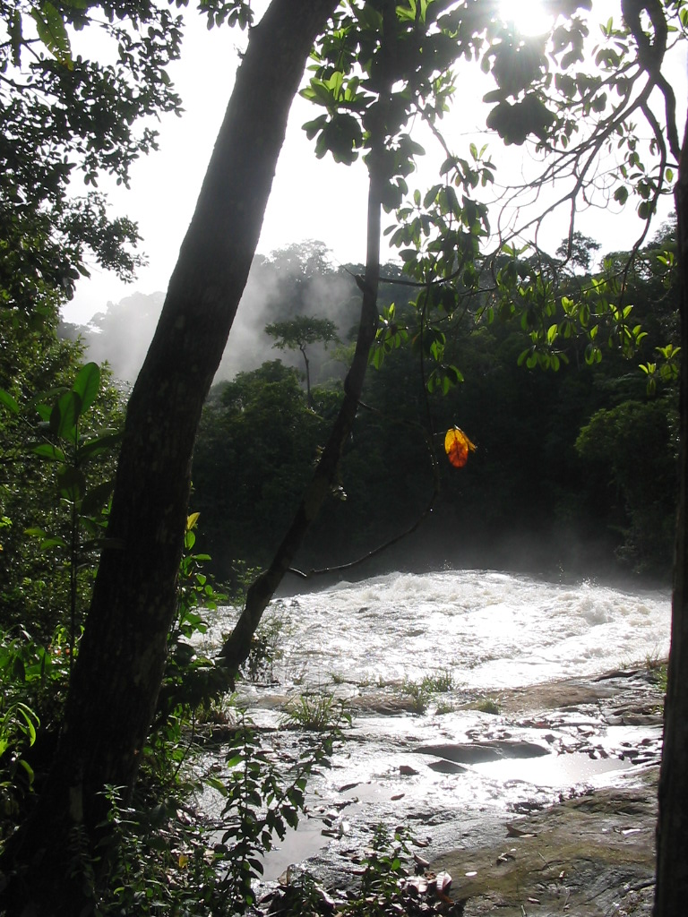 "voltaire" water fall - French Guyana (France) Author : OULIAC